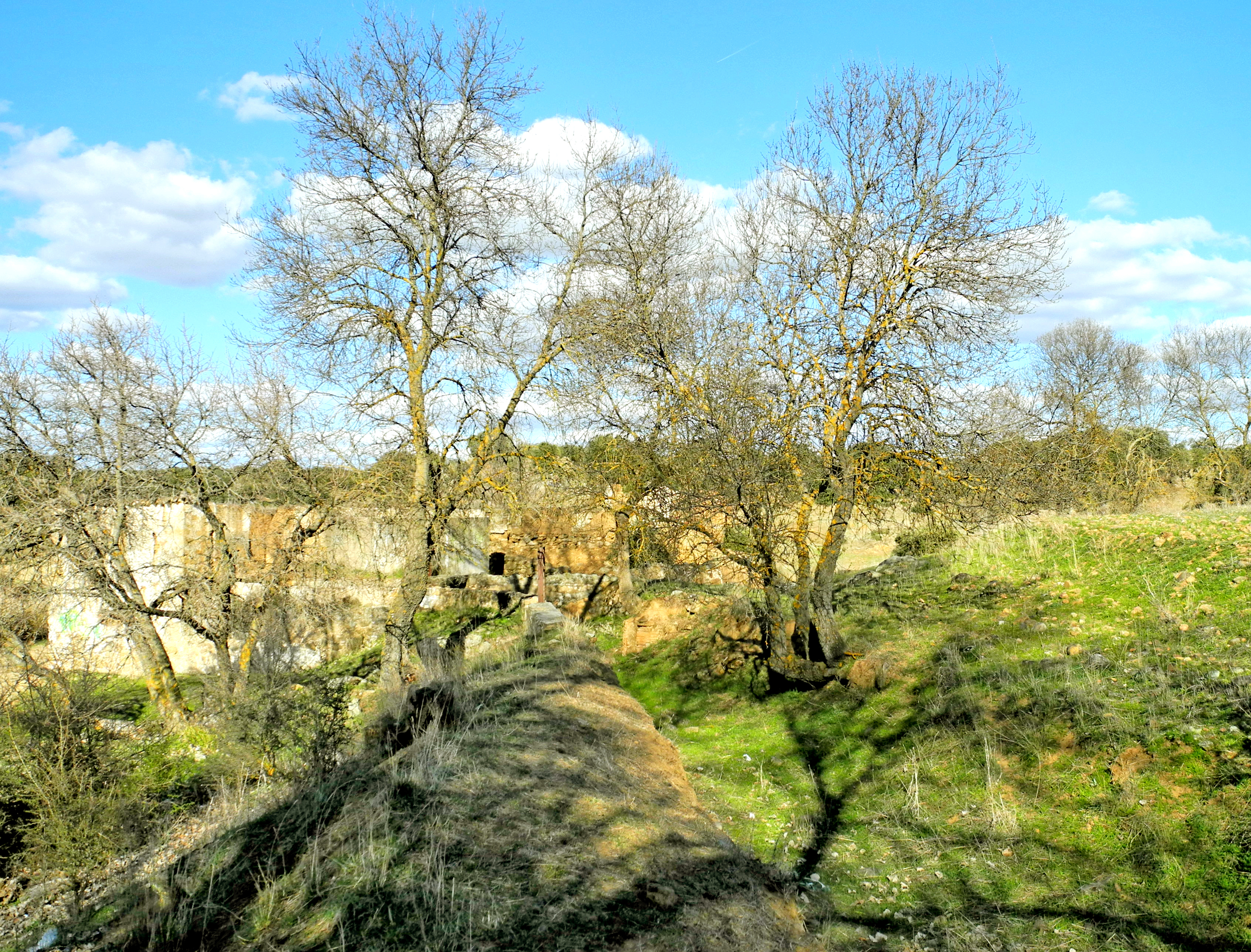 Remains of the ditch and ruins of the Molino del Colado. Los Navalmorales, Toledo, Castile-La Mancha, Spain